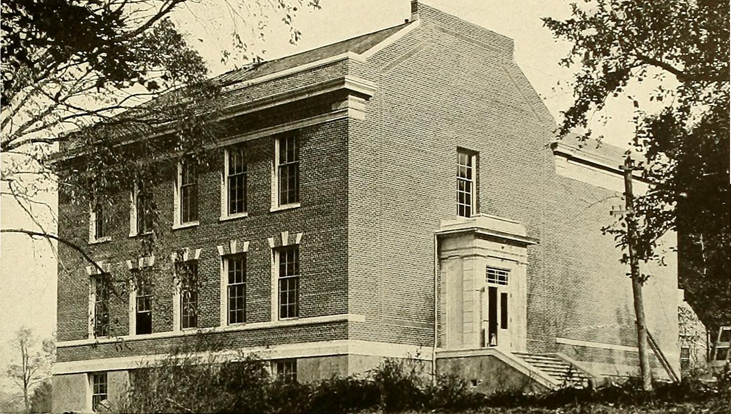 Photo of the former Marshall Hall within a year of its completion as the new microbiology laboratory at the Massachusetts Agricultural College (now the University of Massachusetts Amherst).